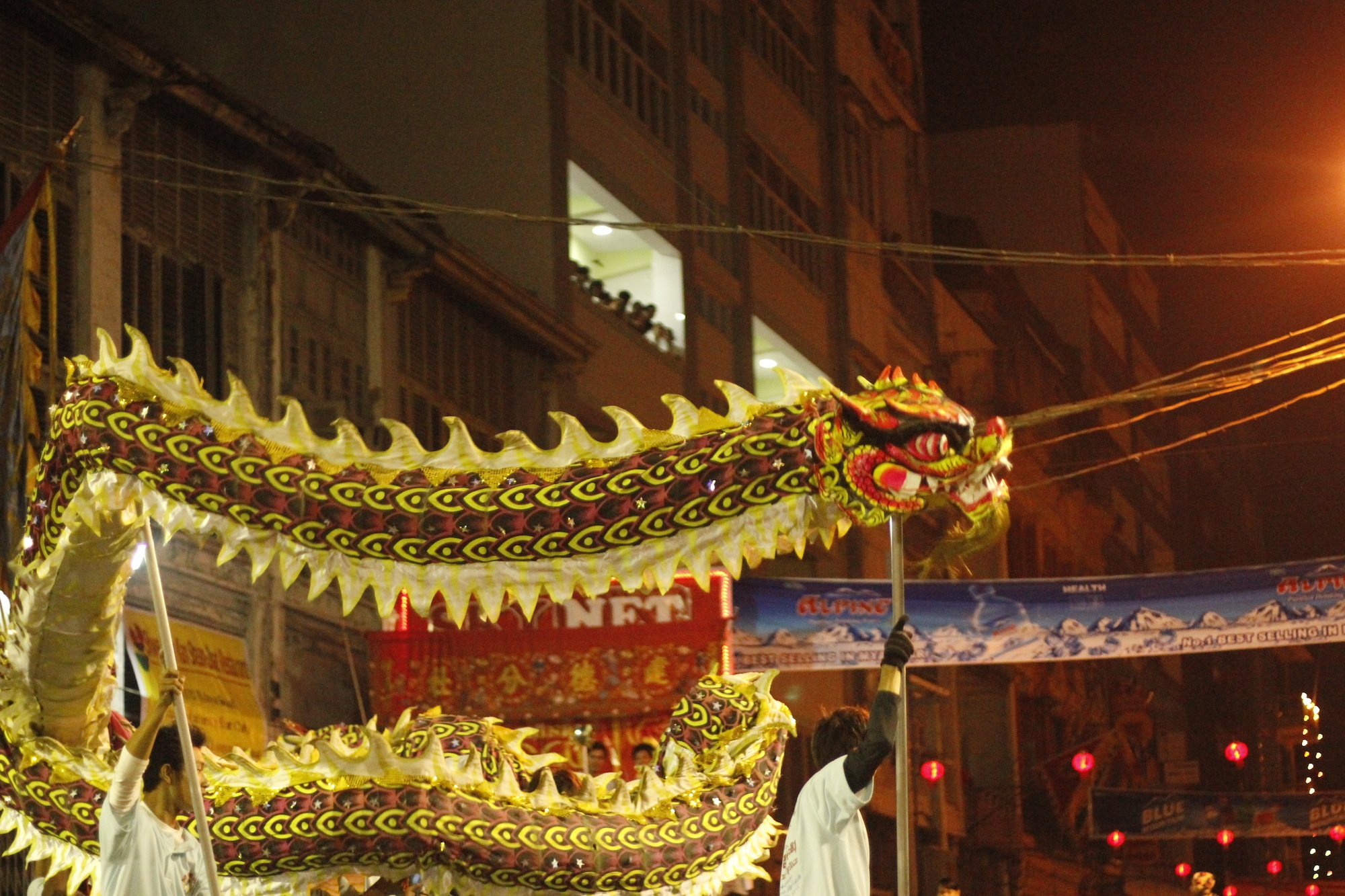 A dance troupe performs Chinese Dragon Dance during Chinese New Year Festival in Chinatown, Yangon, Myanmar on 9 February 2011. မြန်မာဘာသာ: တရုတ် နှစ်သစ်ကူးပွဲတော်ကာလ အတွင်း အကအဖွဲ့တစ်ခုမှ တရုတ်ရိုးရာ နဂါးအကဖြင့် ဖေဖော်ဝါရီလ ၉ ရက်နေ့၊ ၂၀၁၁ ခုနှစ်က ကပြဖျော်ဖြေစဉ်